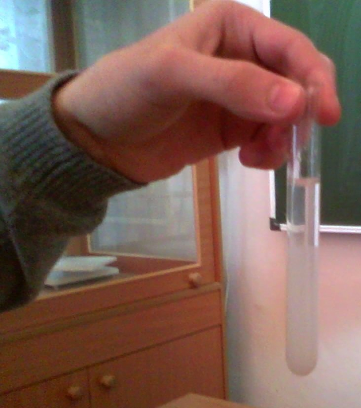 Aluminum hydroxide